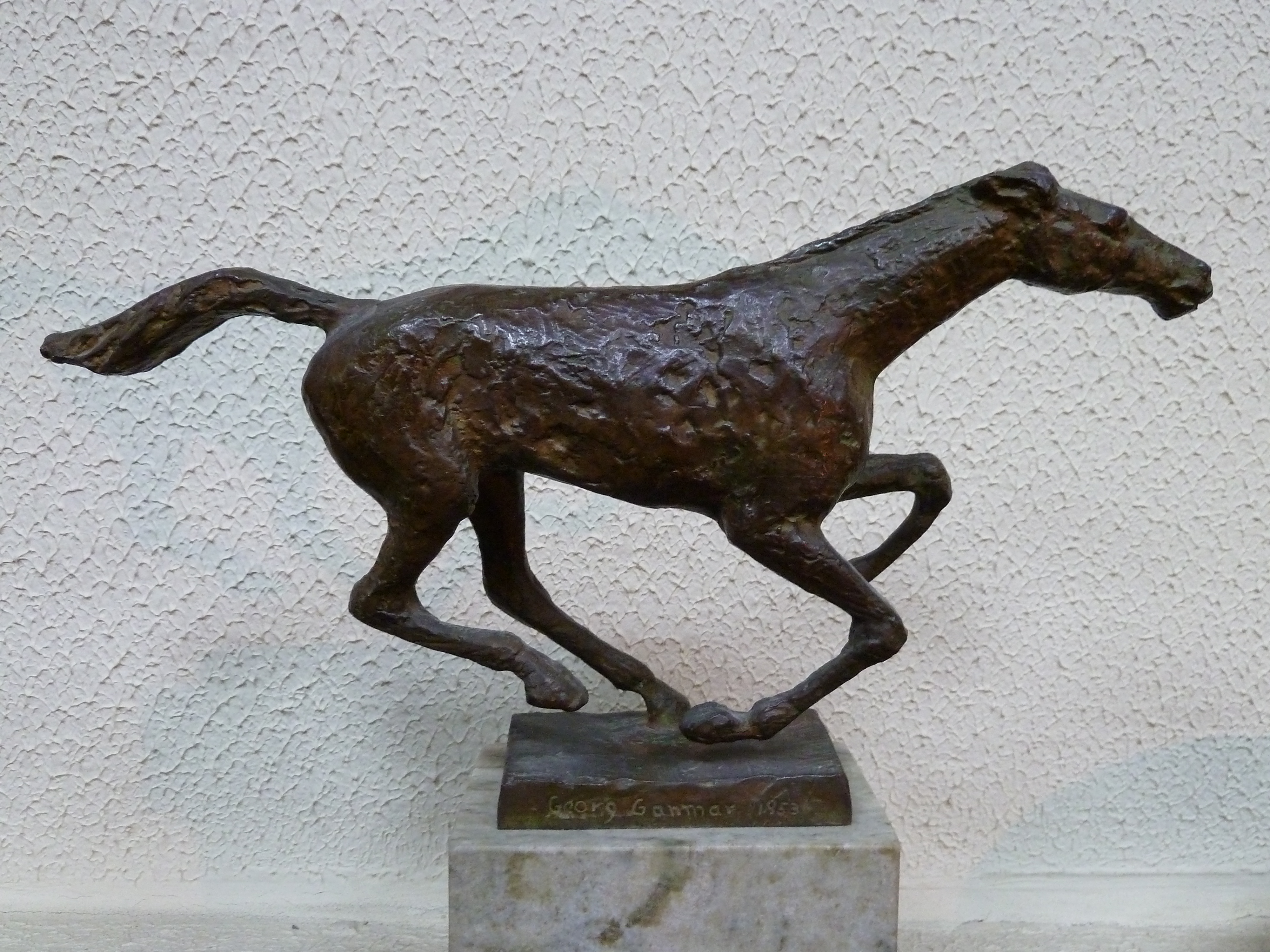 Mustang by Georg Ganmar